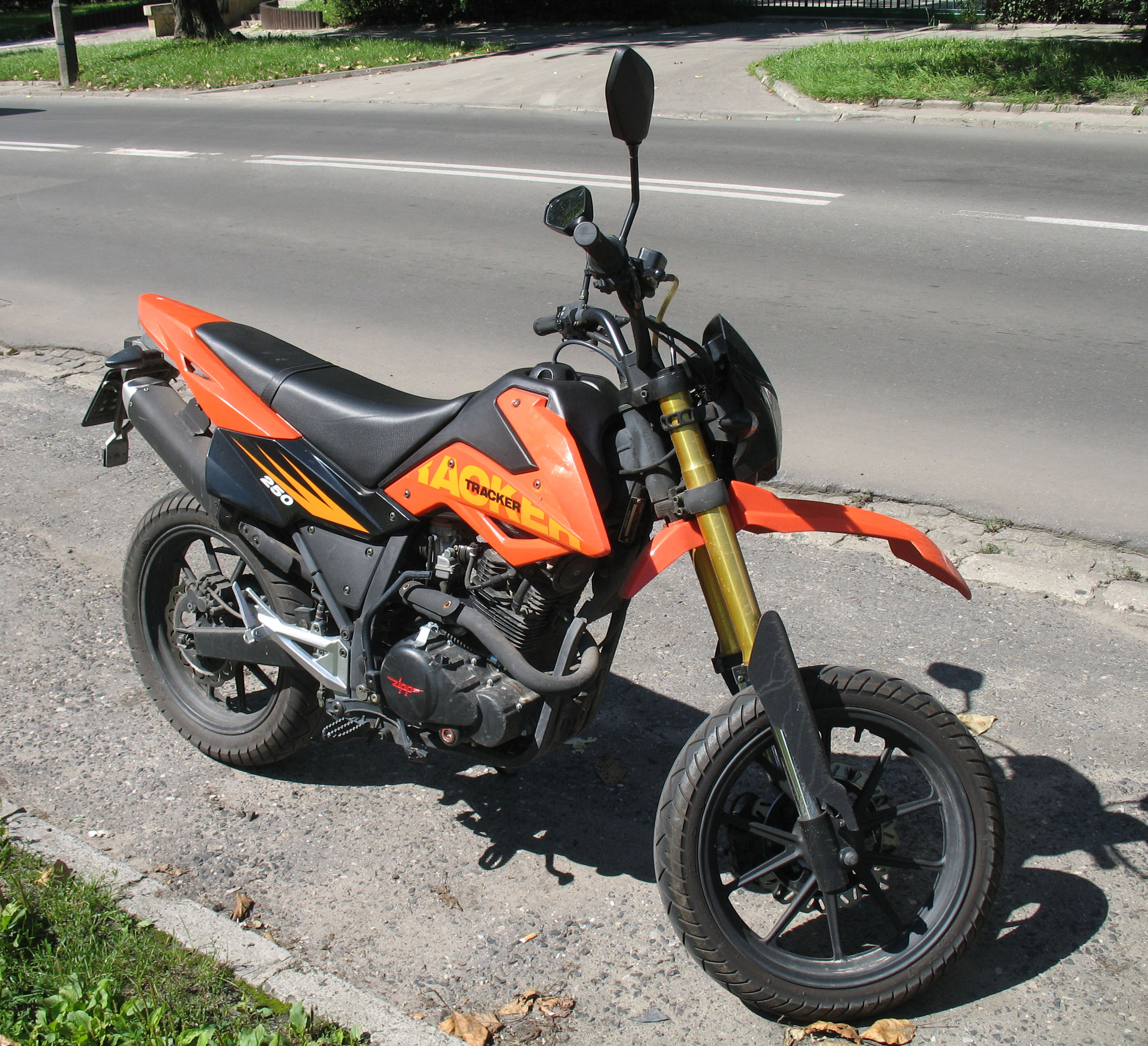 Zipp Tracker 250 motorcycle in Kraków, Poland.